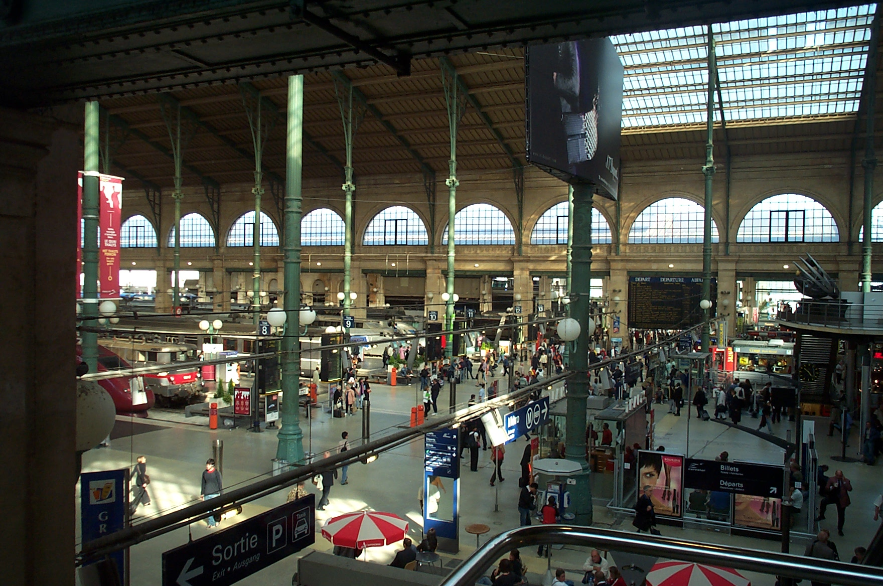 inside Gare du Nord, Copyright © 2004 Kaihsu Tai.